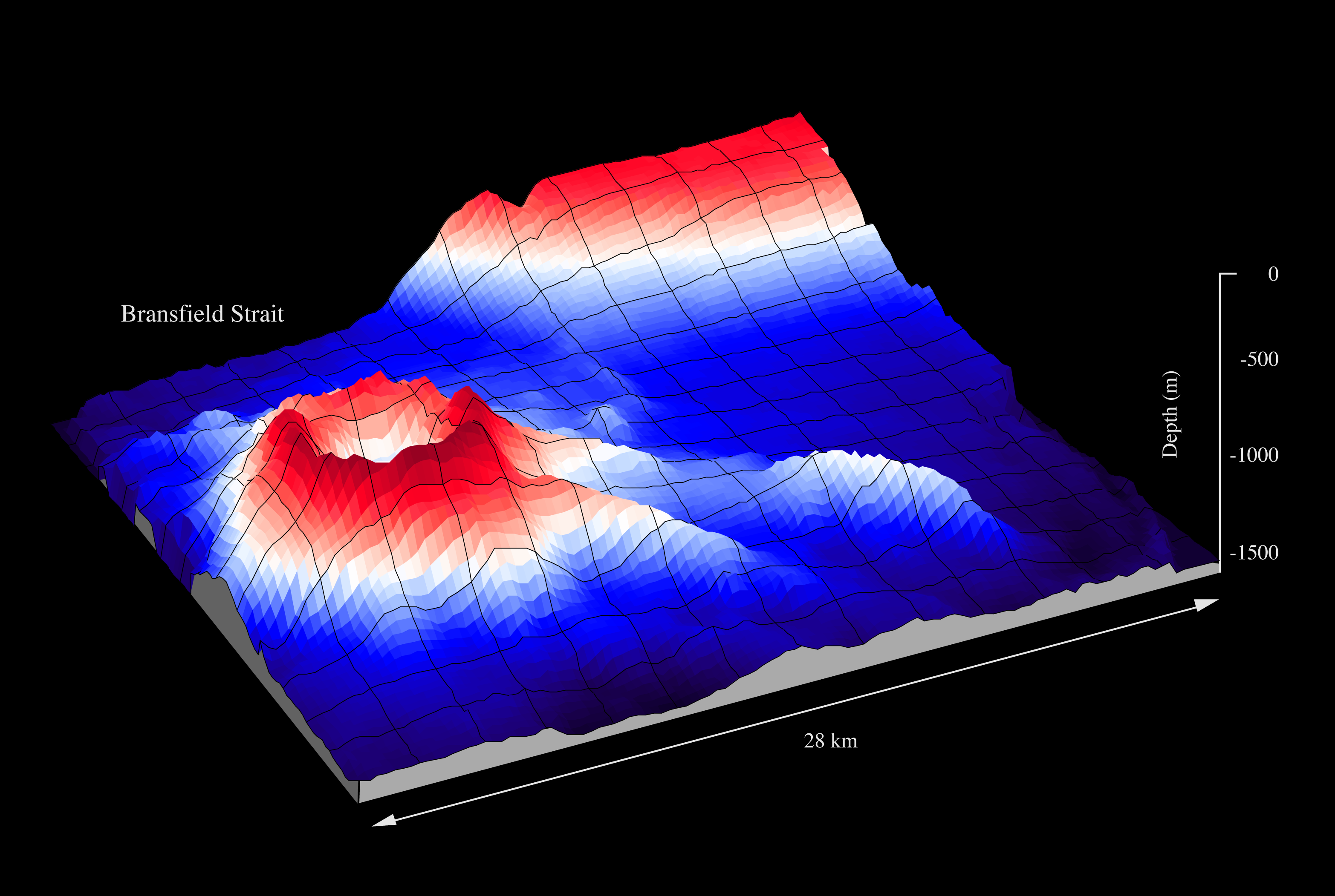 Submarine volcano in Bransfield Strait, Antarctica - mapped with a swath sonar system by the German research vessel Polarstern